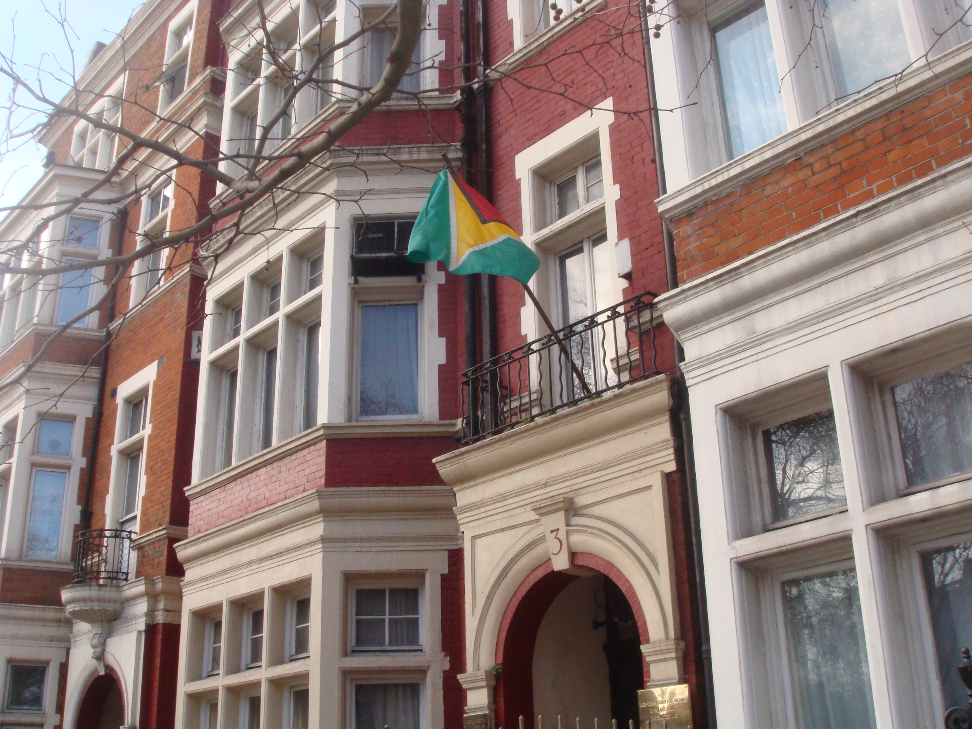 The High Commission office of the South American country of Guyana with its flag outside near 3 Palace Court, Bayswater Road, London, W2 4LP.